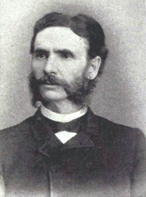 Photo of Samuel E. Pingree, American Civil War Medal of Honor recipient from Deeds of valor; how America's heroes won the Medal of Honor, published in 1901.